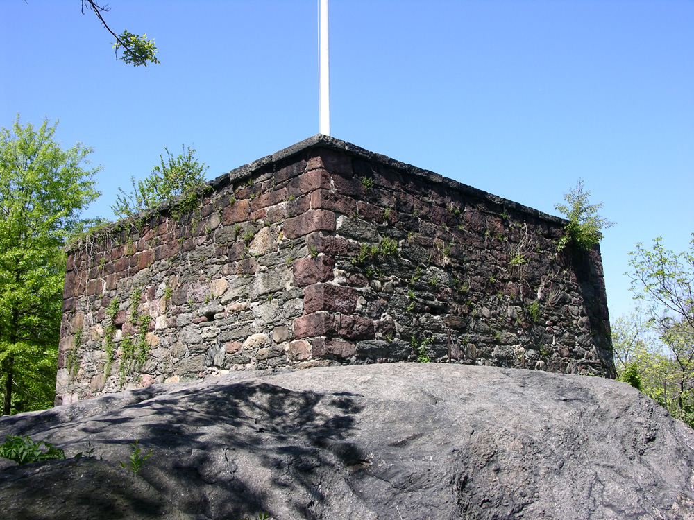 Looking west at military blockhouse, part of New York City fortifications system during the British-American War of 1812.